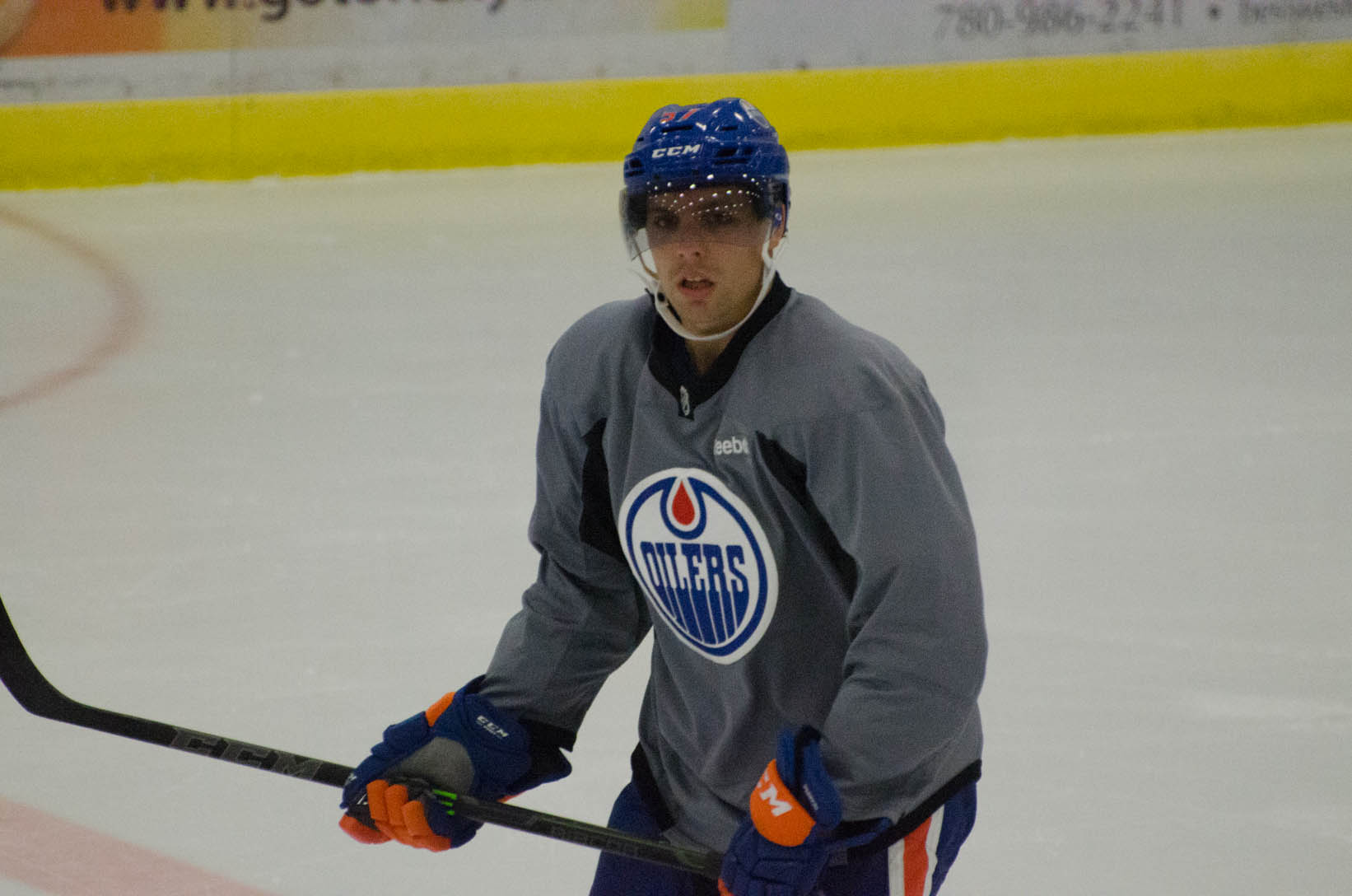 Must credit Connor Mah if used elsewhere.